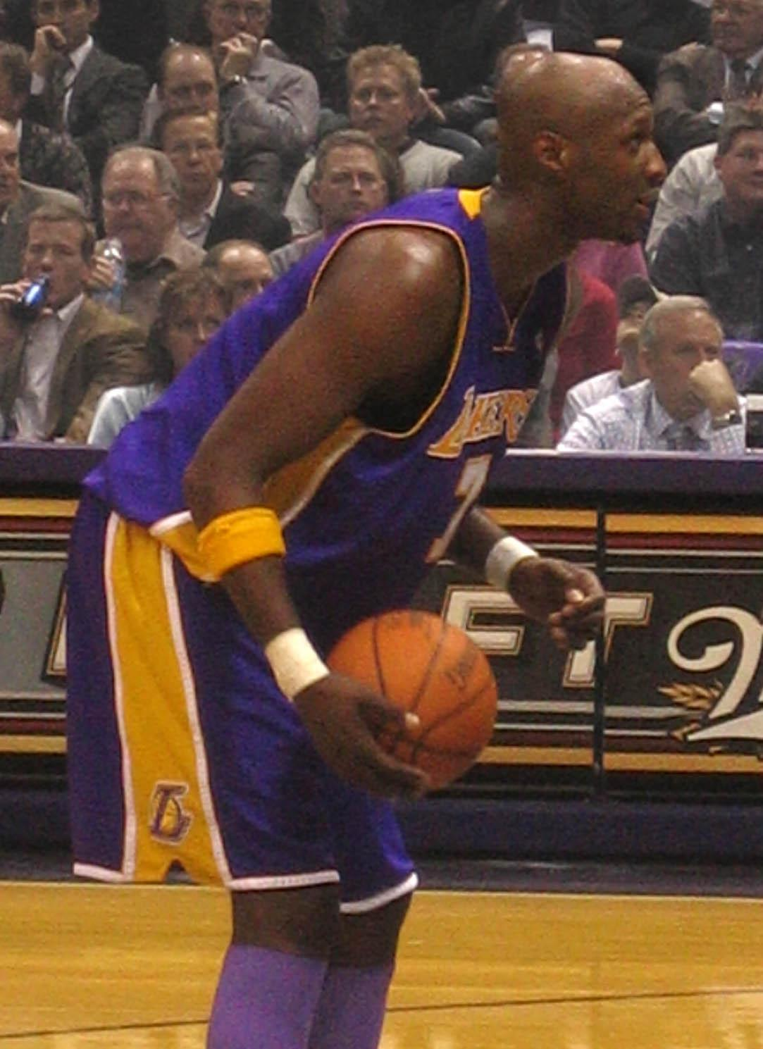 Lamar Odom playing basketball for the L.A. Lakers vs. the Milwaukee bucks on December 6, 2005. Odom had 24 pts, 9 rebounds, 8 assists in this game [1].